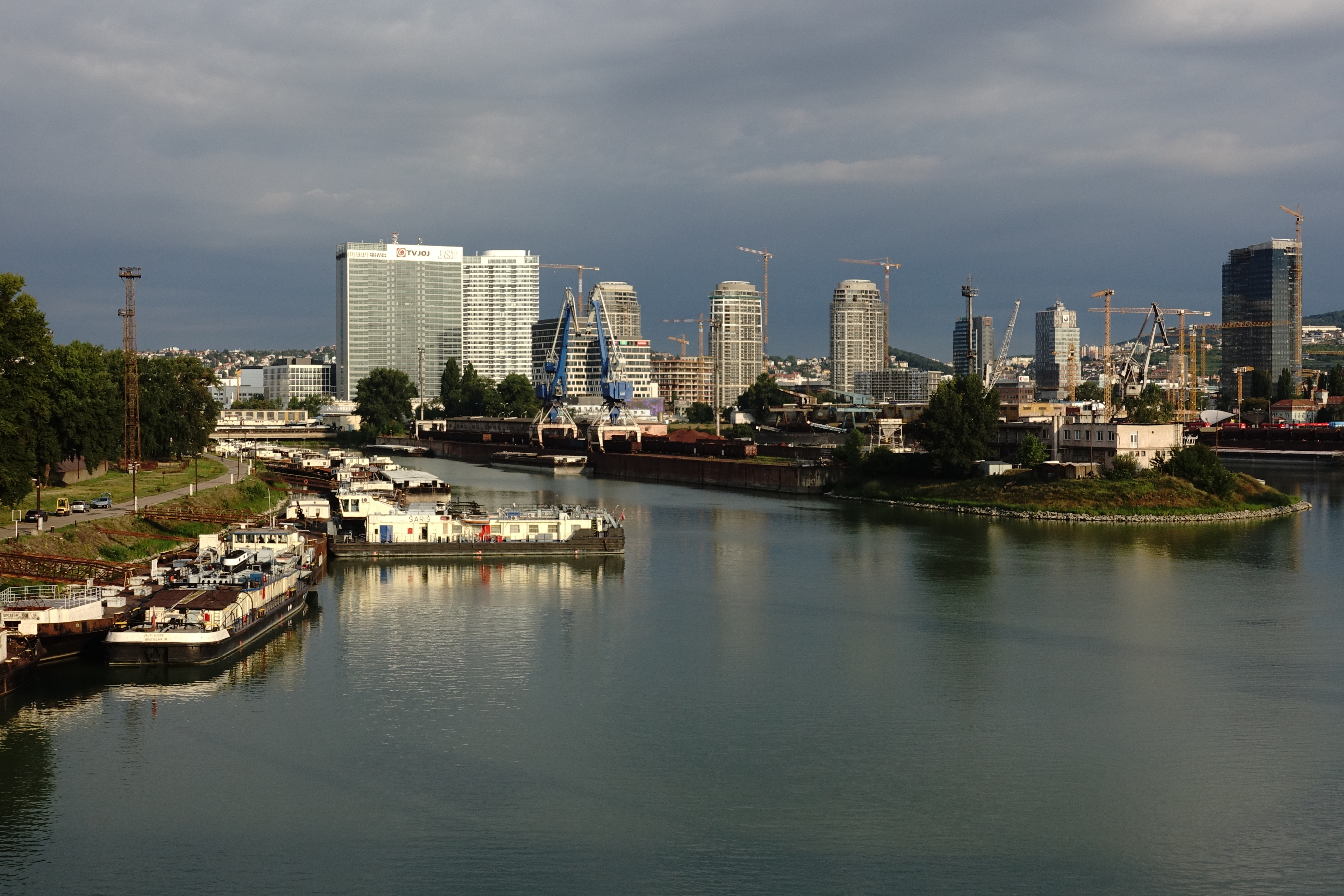 Zimný prístav - part of cargo port in Bratislava. New residential district (Panorama City, Sky park) are visible on the background. Notice the change after 11 years regarding to older picture [2].